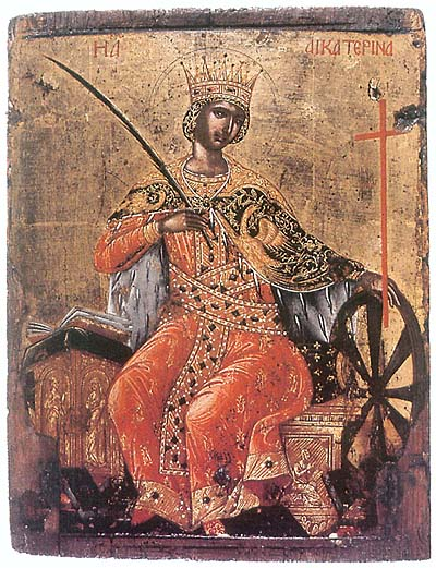 St. Catherine. Sarajevo Church of the Holy Archangels (Old Orthodox Church), tempera on wood, 32x25.2 cm, Circle of' Silvestros Teoharis, around 1640s